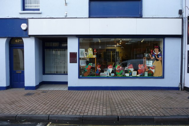 Pelham Puppet Shop, No. 67 The High Street, Ilfracombe The proprietor has contacted me to say, "The shop 67 High Street Ilfracombe was actually called Devonly Different and included local arts and crafts. I later turned it into sole use for Pelham Puppets and relocated in July to 107 High Street."